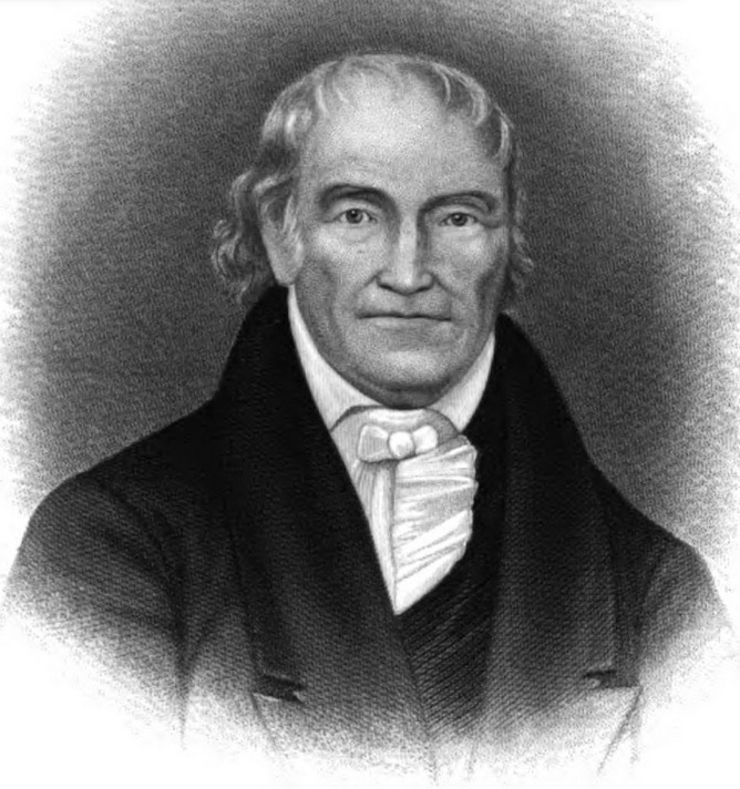 Jonas Galusha (1753−1834), early 19th century Governor of Vermont.